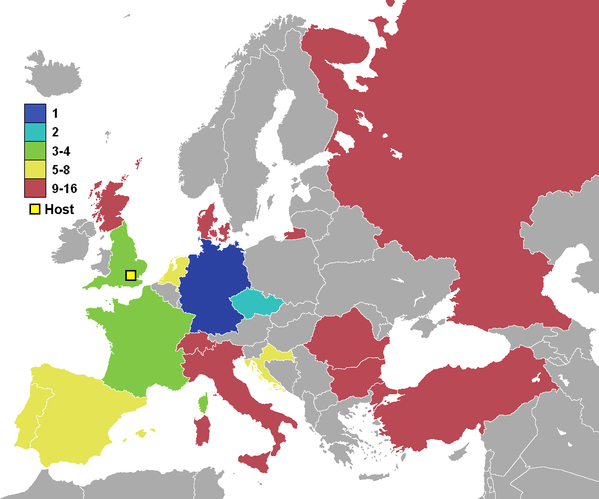 UEFA Euro 1996 final team ranking, showing: Winner (dark blue) Runner-up (light blue) Semifinalists (light green) Quarterfinalists (yellow) Group stage (red) Yellow square is host nation (England).